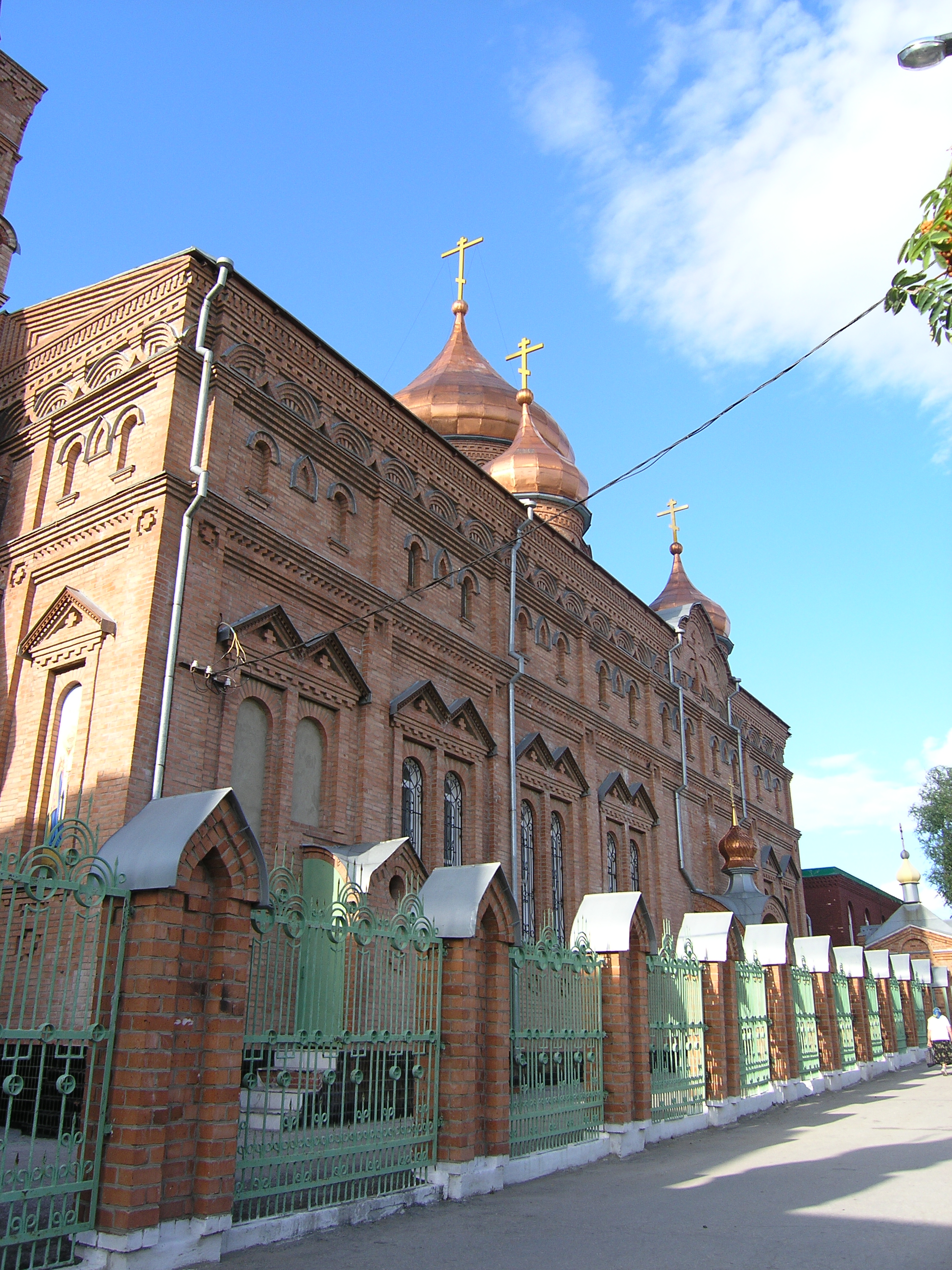 Kazansky sobor, Togliatti, Russia